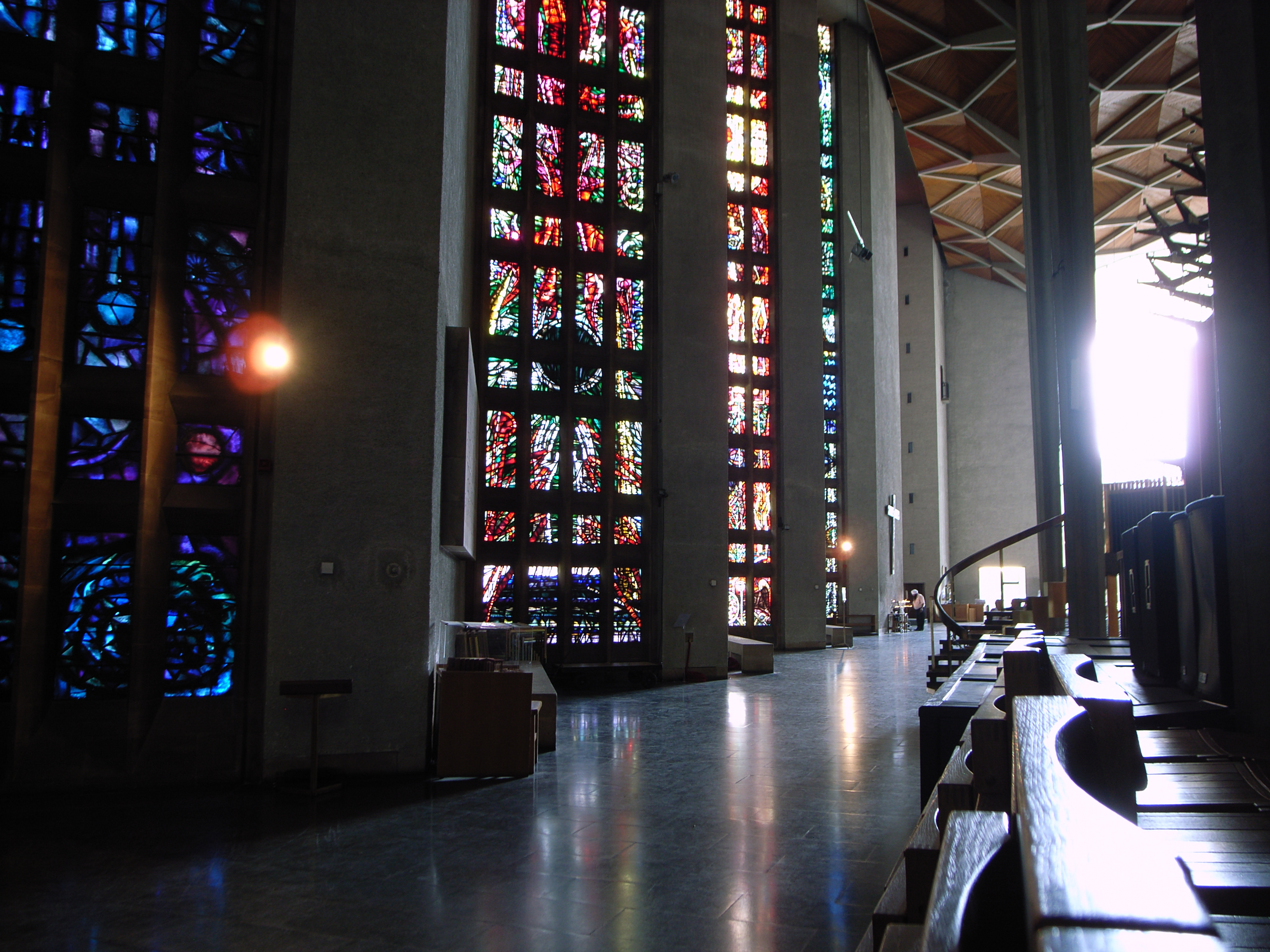 Coventry Cathedral, Coventry, West Midlands, England. Stained glass windows by Lawrence Lee, Keith New and Geoffrey Clarke.